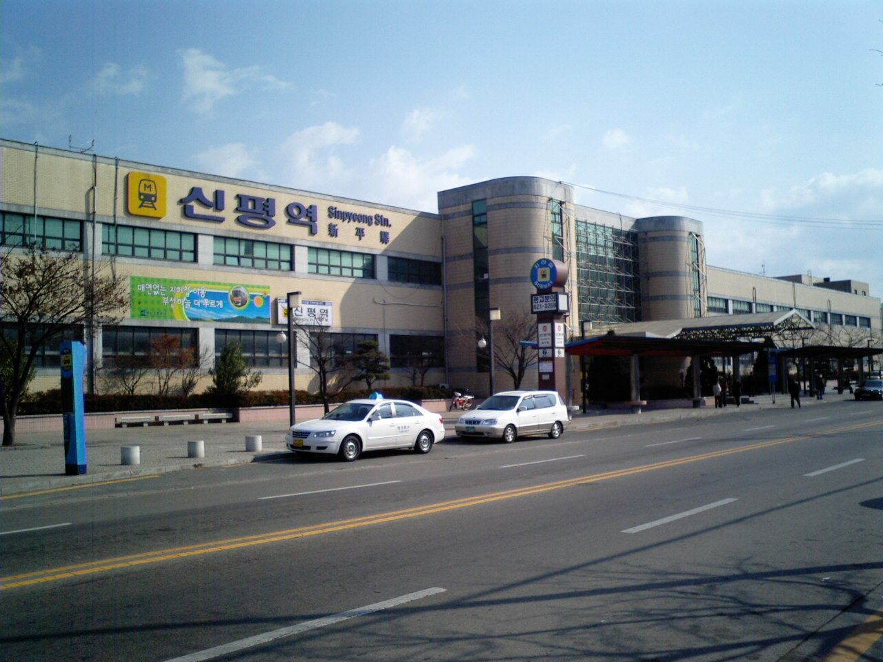 Sinpyeong Station BUSAN KOREA